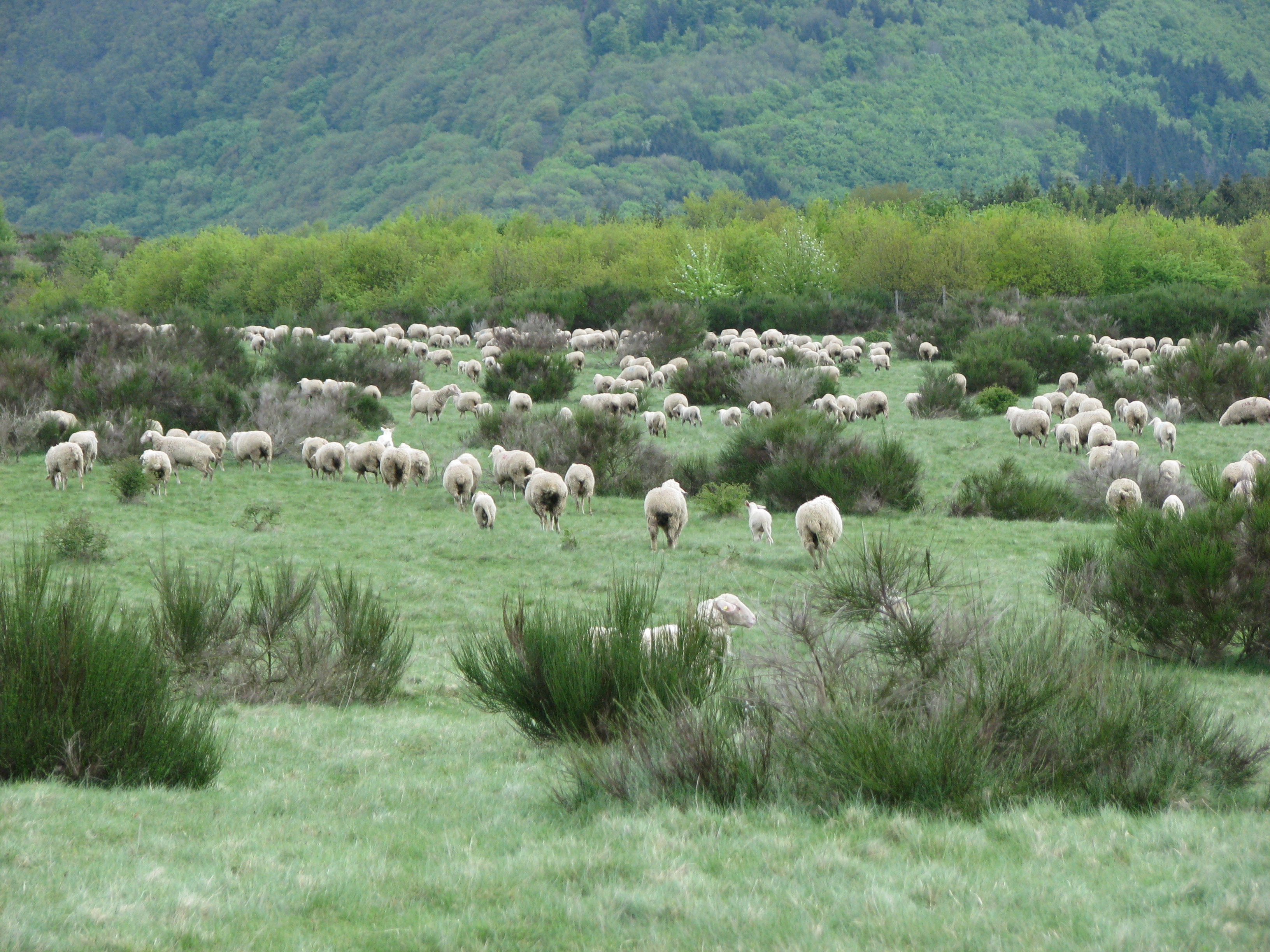 Flock of sheep for preservation of the grassland areas on the Dreiborn Plateau in the Eifel National Park.